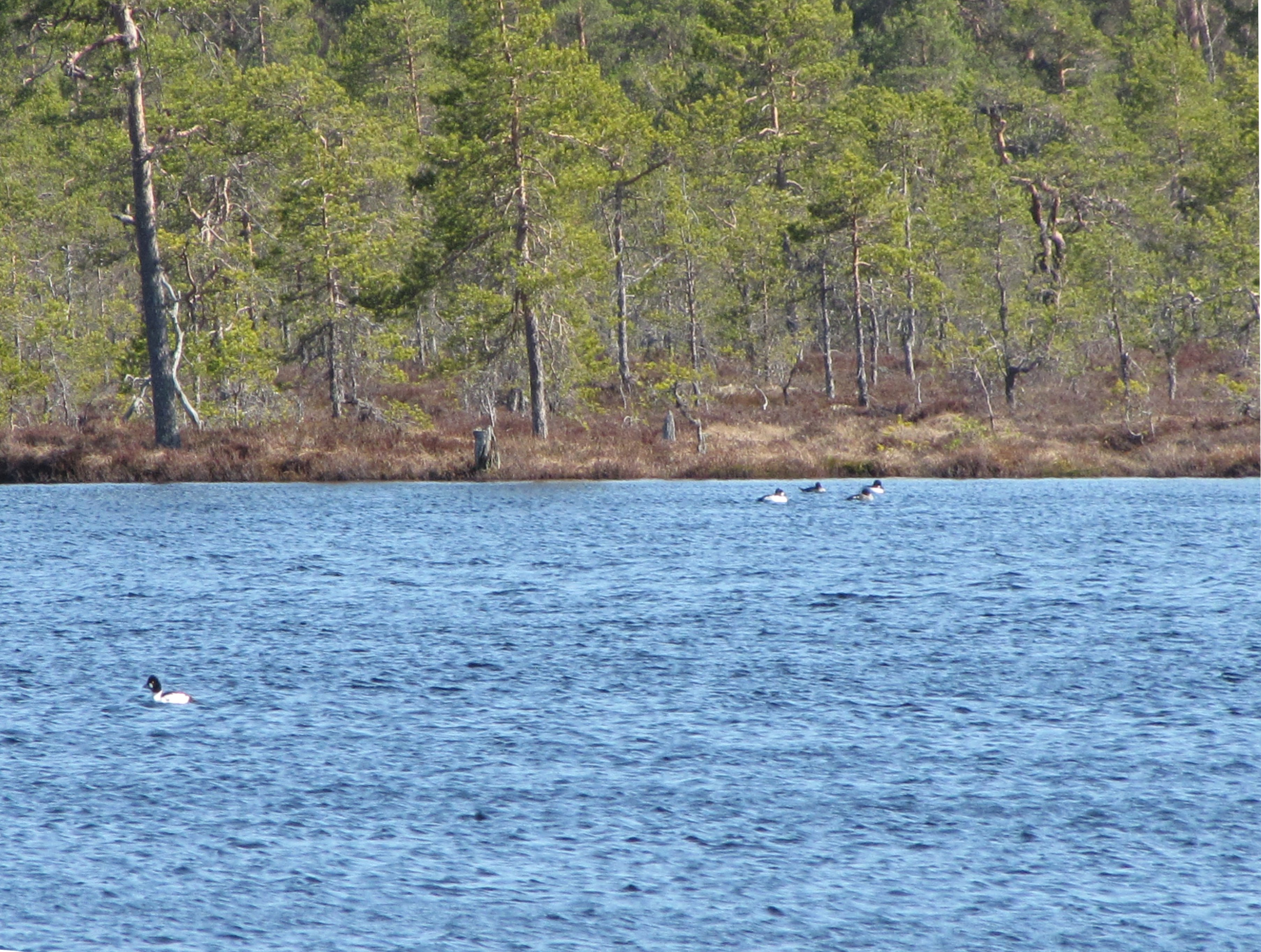 Lake Kauhalammi in Kauhaneva–Pohjankangas National Park, Finland. There are also Common Goldeneye's (Bucephala clangula) on the lake.